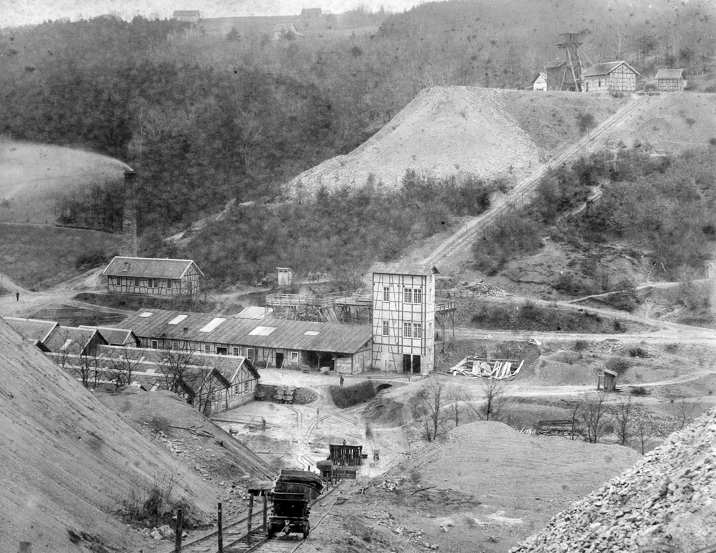 Mine Berzelius about 1880